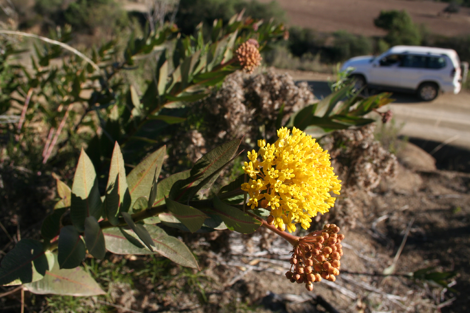 Shockingly yellow flowers caught my attention as we drove down this dirt road from Serrano to Nuevo Mundo. These Asclepias plants seemed to have very specific soil requirements. I found them only in rocky areas where the substrate was composed chiefly of tiny fragments of the underlying stone, which was deep red and seemed to be quite rich in iron. Still trying to track down the species identification.